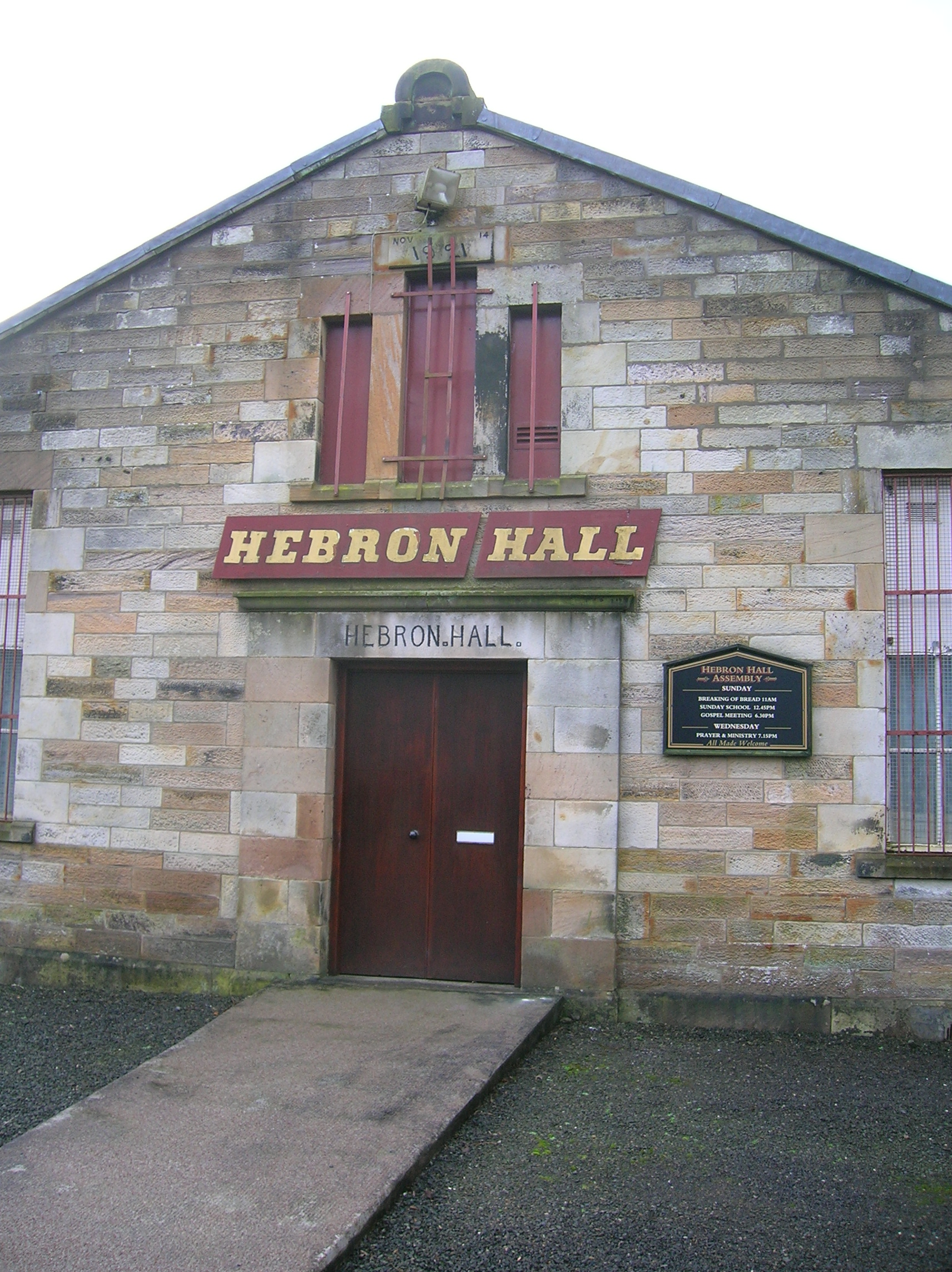 Hebron Hall, Plymouth Brethren Glengarnock, North Ayrshire, Scotland